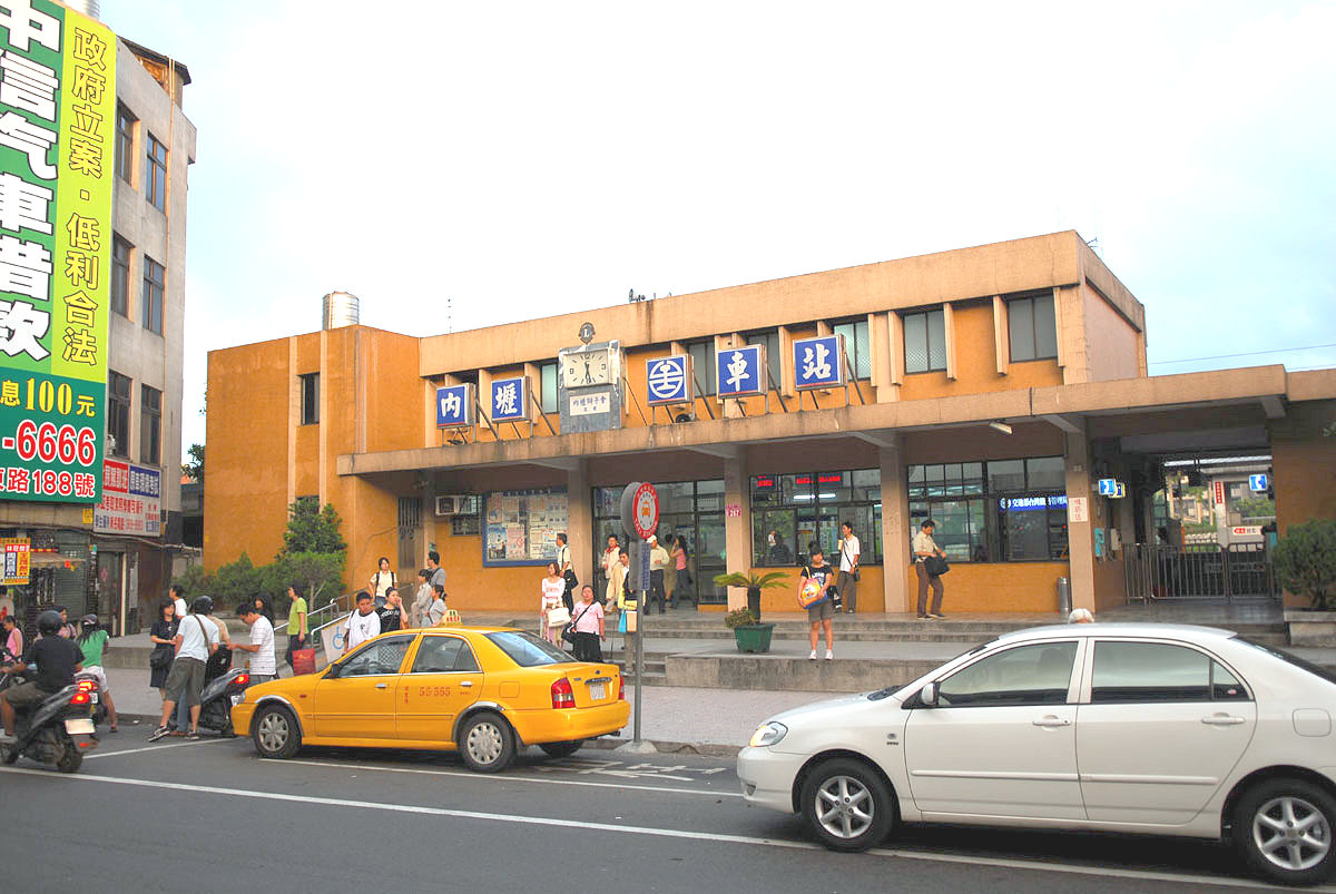 Neili Station is local train station of Taiwan's Western Main Line and located in Chungli City, Taoyuan County. Although the station itself is not a central station of any city, nearby residentials and schools bring it high traffic volumes during peak hours.